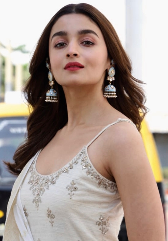 Alia Bhatt promoting Kalank in 2019